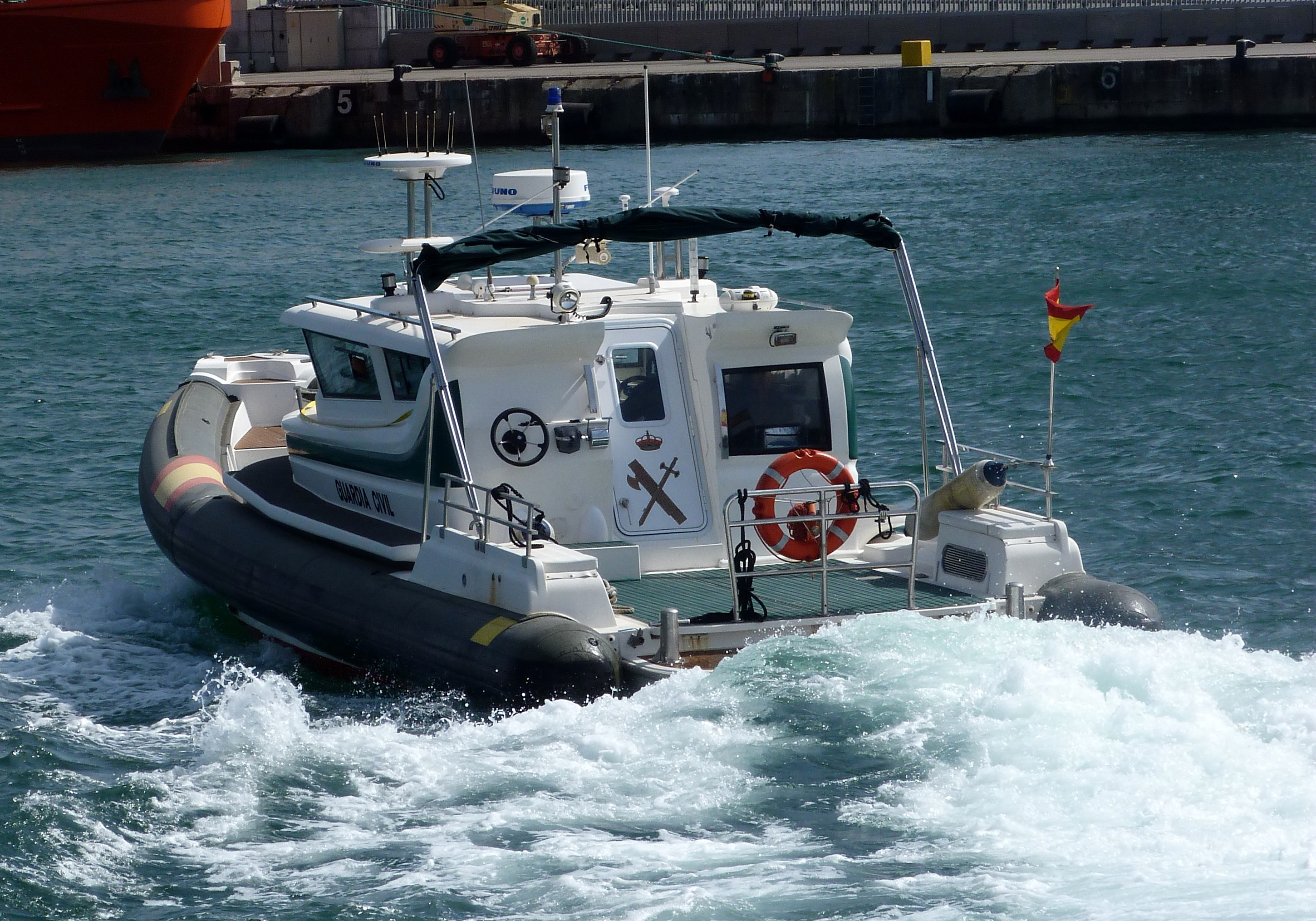 Duarry Megatech 12 of the Servicio Marítimo de la Guardia Civil